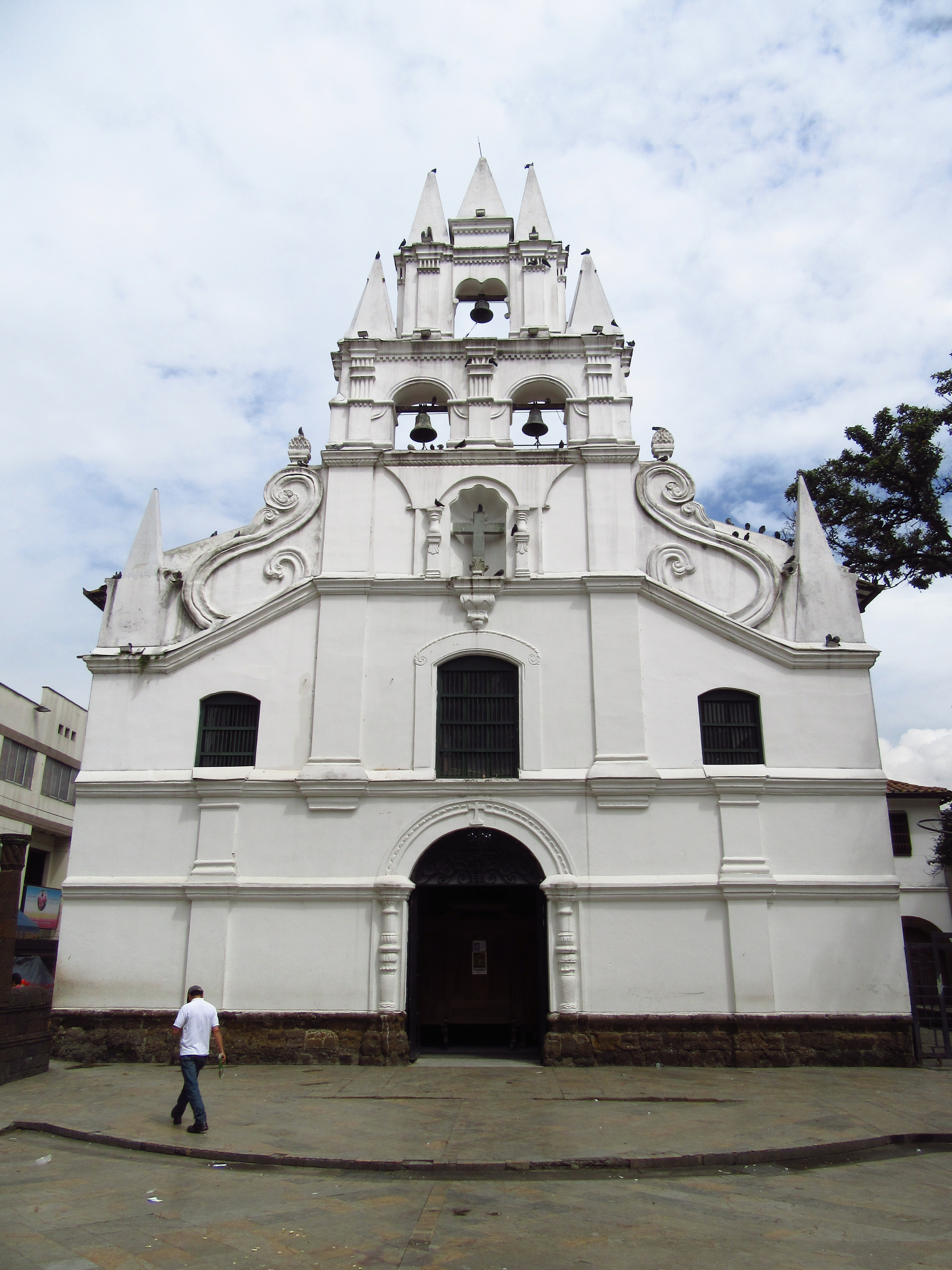 Medellín